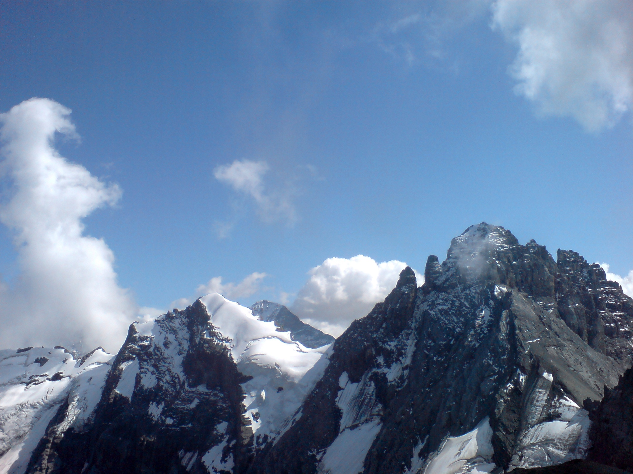 View of Tschingelspitz and Gspaltenhorn from Bütlasse